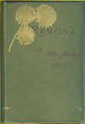 Cover to 1893 edition of Ramona by Helen Hunt Jackson